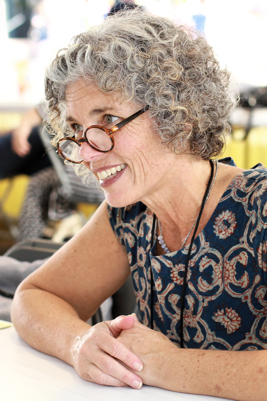 Author Elizabeth Garton Scanlon at the 2018 Texas Book Festival in Austin, Texas, United States.